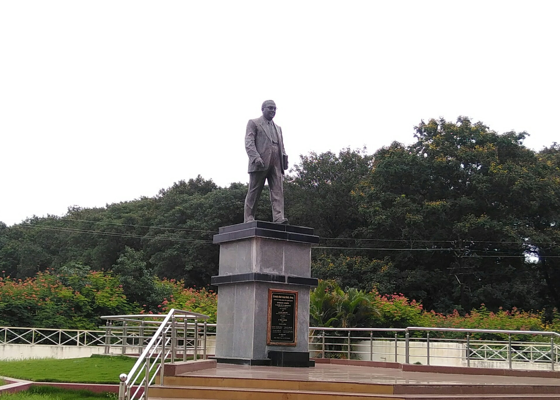 Dr. Babasaheb Ambedkar's statue in Dr. Babasaheb Ambedkar Marathwada University, Aurangabad